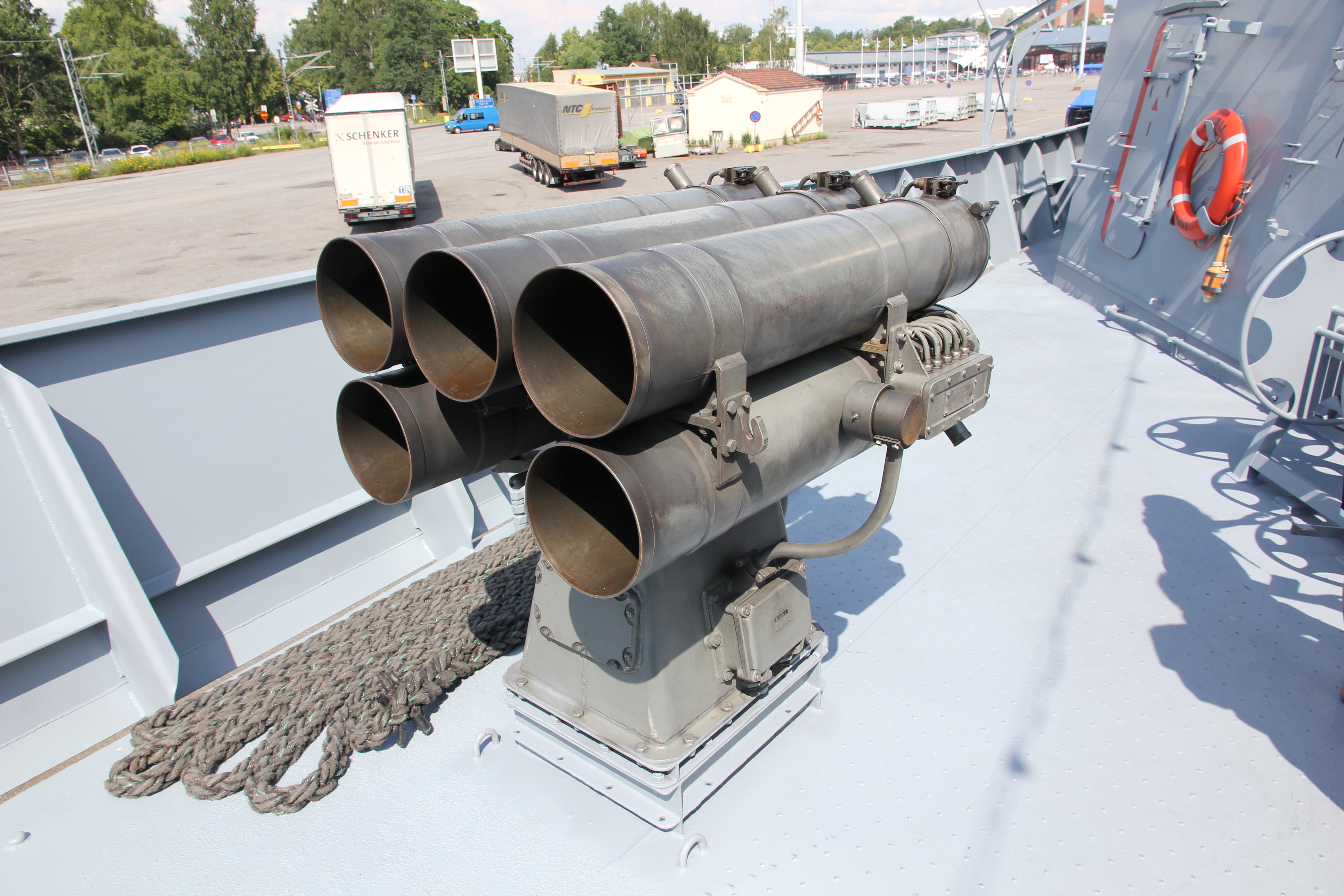 Finnish minelayer Uusimaa bow starboard side RBU-1200 anti-submarine rocket launcher. Photographed during Finnish Navy 2011 anniversary in Turku.